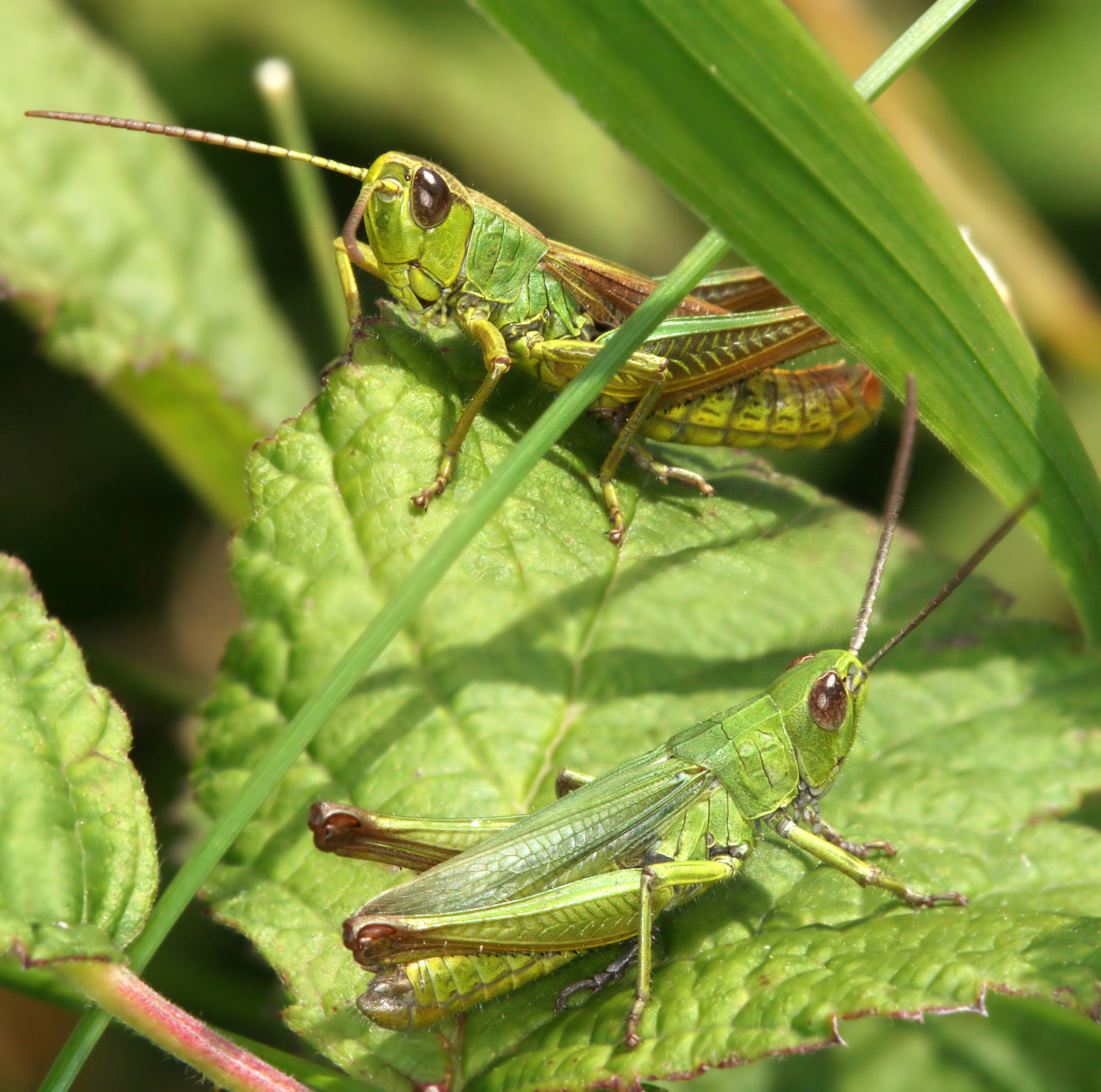 Description: Grasshoppers are herbivorous insects of the suborder Caelifera in the order Orthoptera. To distinguish them from bush crickets or katydids, they are sometimes referred to as short-horned grasshoppers. Species that change colour and behavior at high population densities are called locusts.